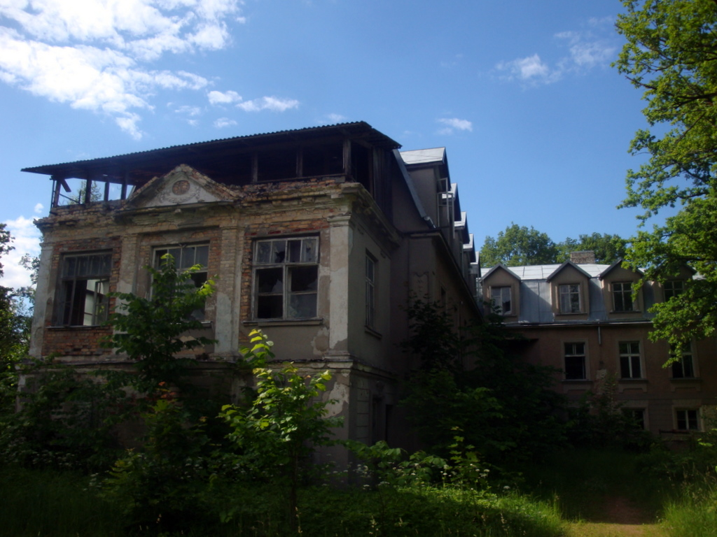 Stirnen manor houseLatviešu: Stirnu muižas pils